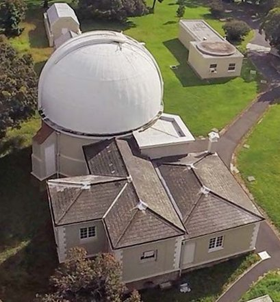 Aerial view of McClean telescope building, former Royal Observatory, Cape of Good Hope